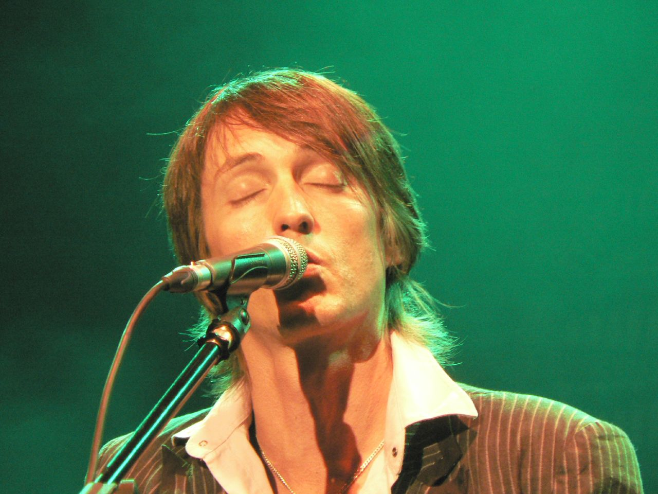 South Africa musician, Chris Chameleon.